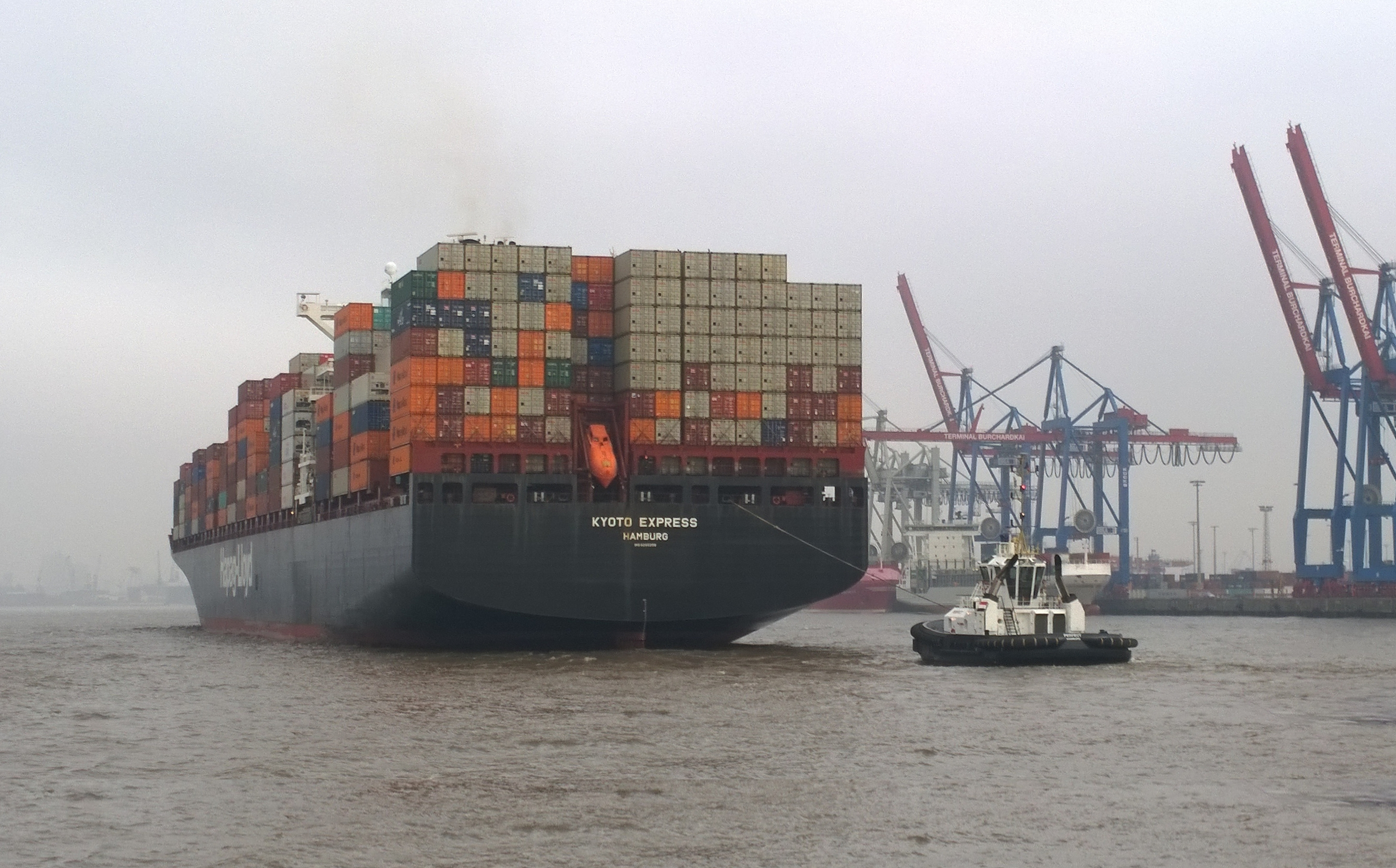 The container ship Kyoto Express in the port of Hamburg in front of the Burchard Terminal